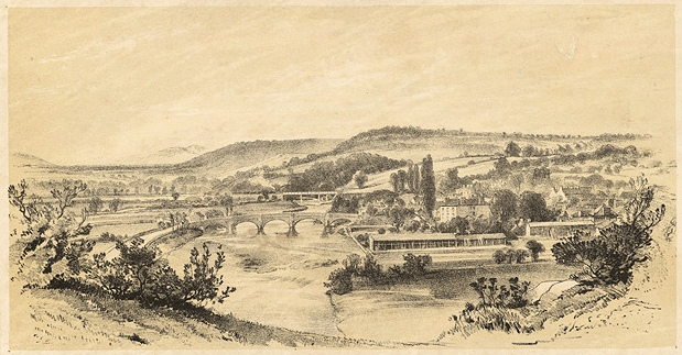 1 print : lithograph (tinted), b&w ; image size 110 x 215 mm., paper size 162 x 258 mm.